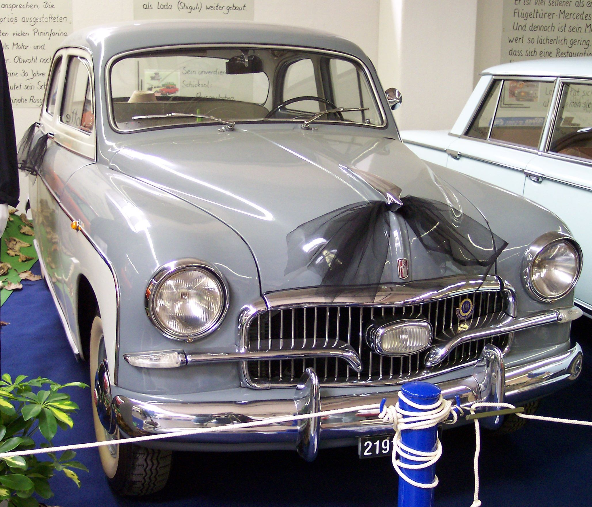 Fiat 1400 B